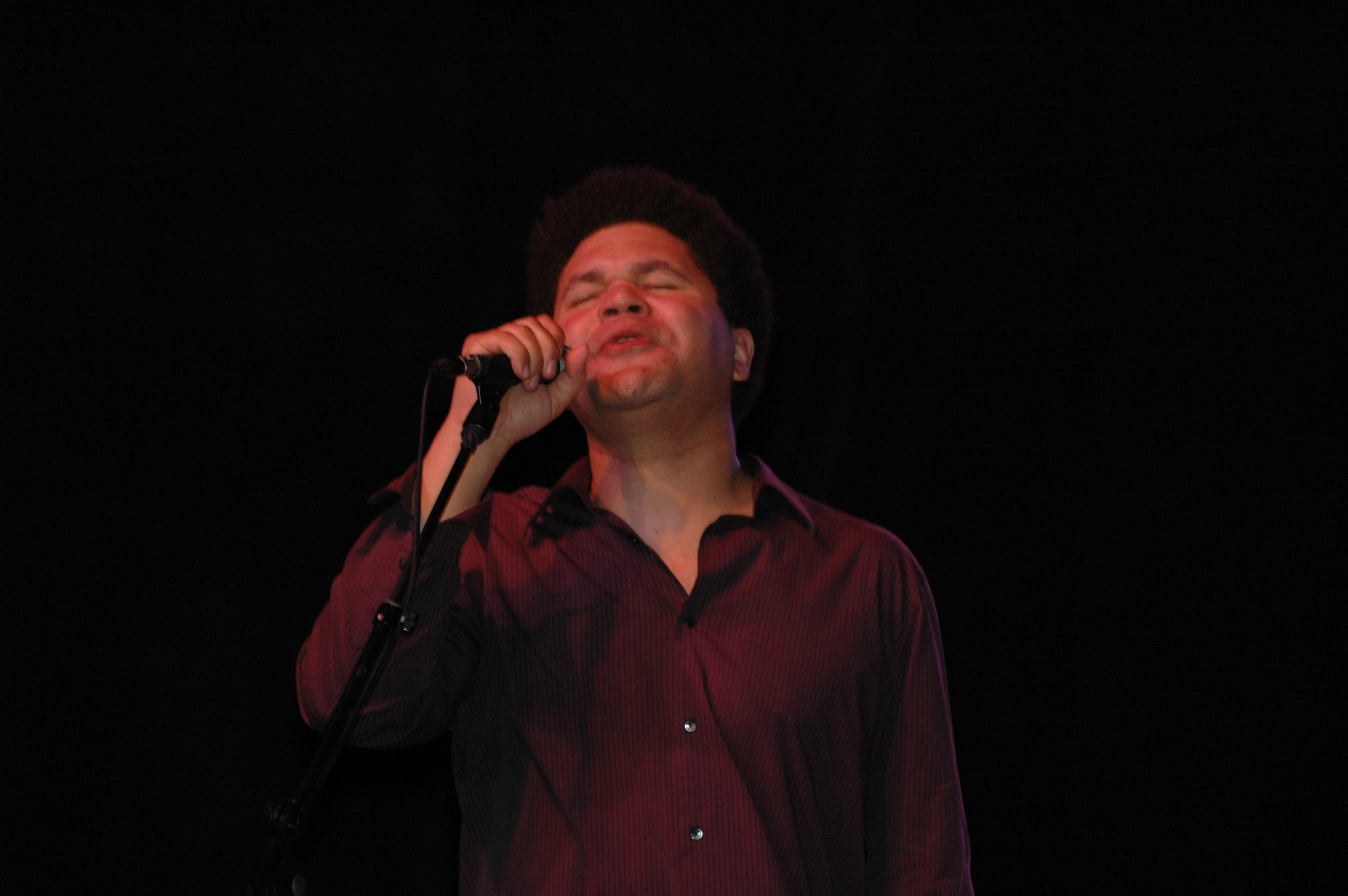 Mike Mattison, vocalist for the Derek Trucks Band Live at the Pompano Beach Amphitheatre December 29, 2006